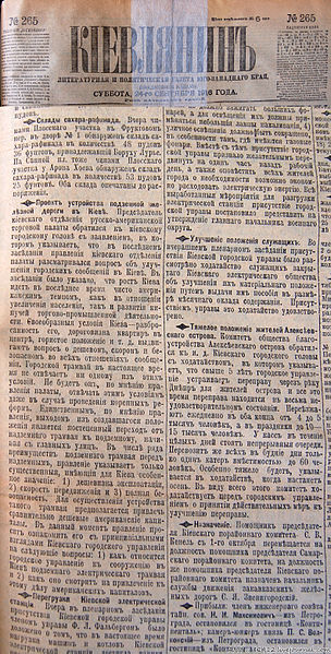 This is the document published in "The Kievan" Russian newspaper, featuring the proposal of the Russian-American trade organisation from 24 Sep 1916 (O. S.) to construct an underground with the usage of American funds.